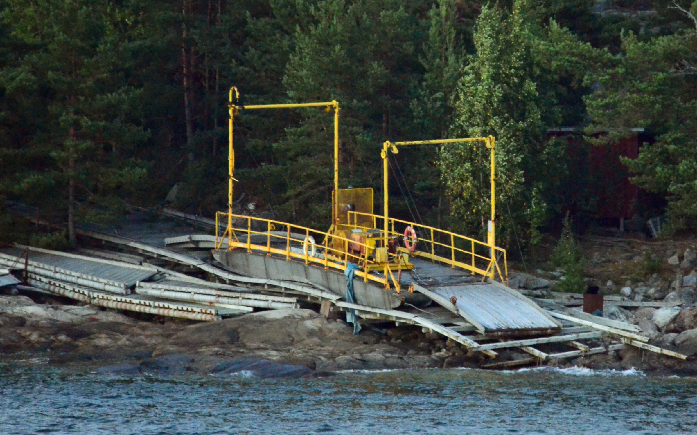 The parts of an ice road on the beach of Petisholmen in Nagu, Finland. The big thing is a motor-powerd thrust bridge used where the ice road cross the shipping route to Turku.